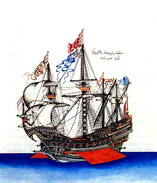 "Göke" (1495) was the flagship of Kemal Reis Contemporary miniature from the Ottoman period, Topkapı Palace Library, Istanbul